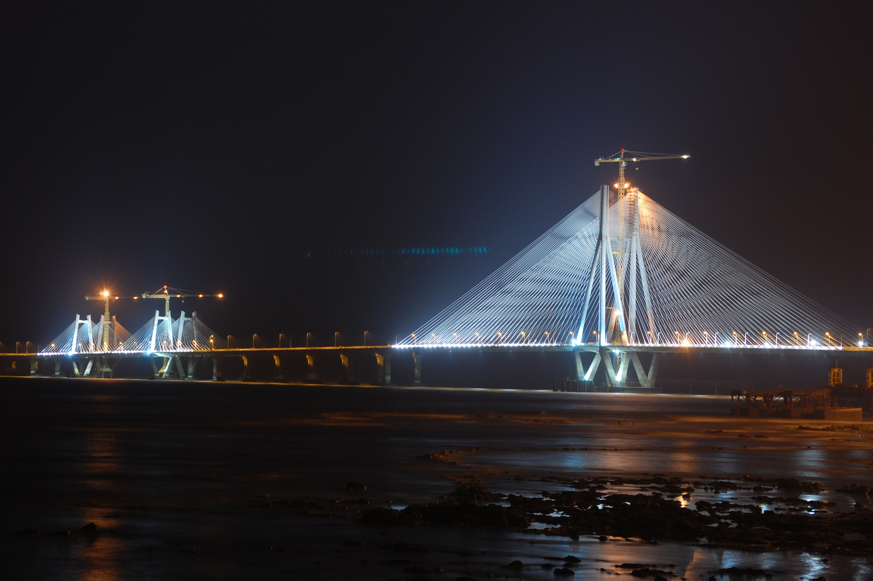 This is the 'soon to be inaugurated' Bandra Worli Sea Link.